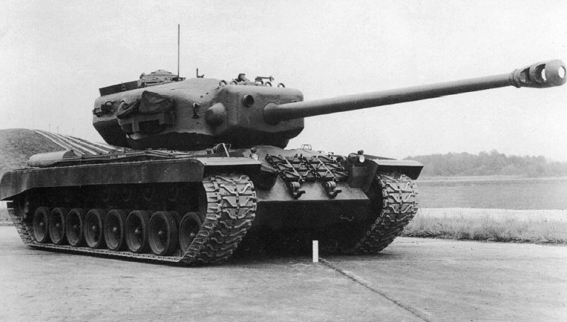 T29 Heavy Tank at the Aberdeen Proving Grounds 1945. The Heavy Tank T29 and Heavy Tank T34 were American developmental heavy tanks started in March 1944 to counter the appearance of the Tiger II at Normandy. The T26E3 Medium Tank (that entered service as the M26 Pershing), weighing around 45 short tons, was not considered heavily enough armed or armored to counter the Tiger II, which weighed closer to 69 t (76 short tons). The T29 was not ready in time for the war in Europe, but it did provide post-war engineers with opportunities for applying the engineering concepts learned in artillery and automotive components.